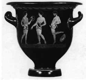 Mixing Vessel with Chorus men as Satyrs, Greek, made in Apulia, South Italy, 410–380 B.C. Terracotta H: 33 cm (13 in.); Diam (rim): 36 cm (14 1⁄8 in.).